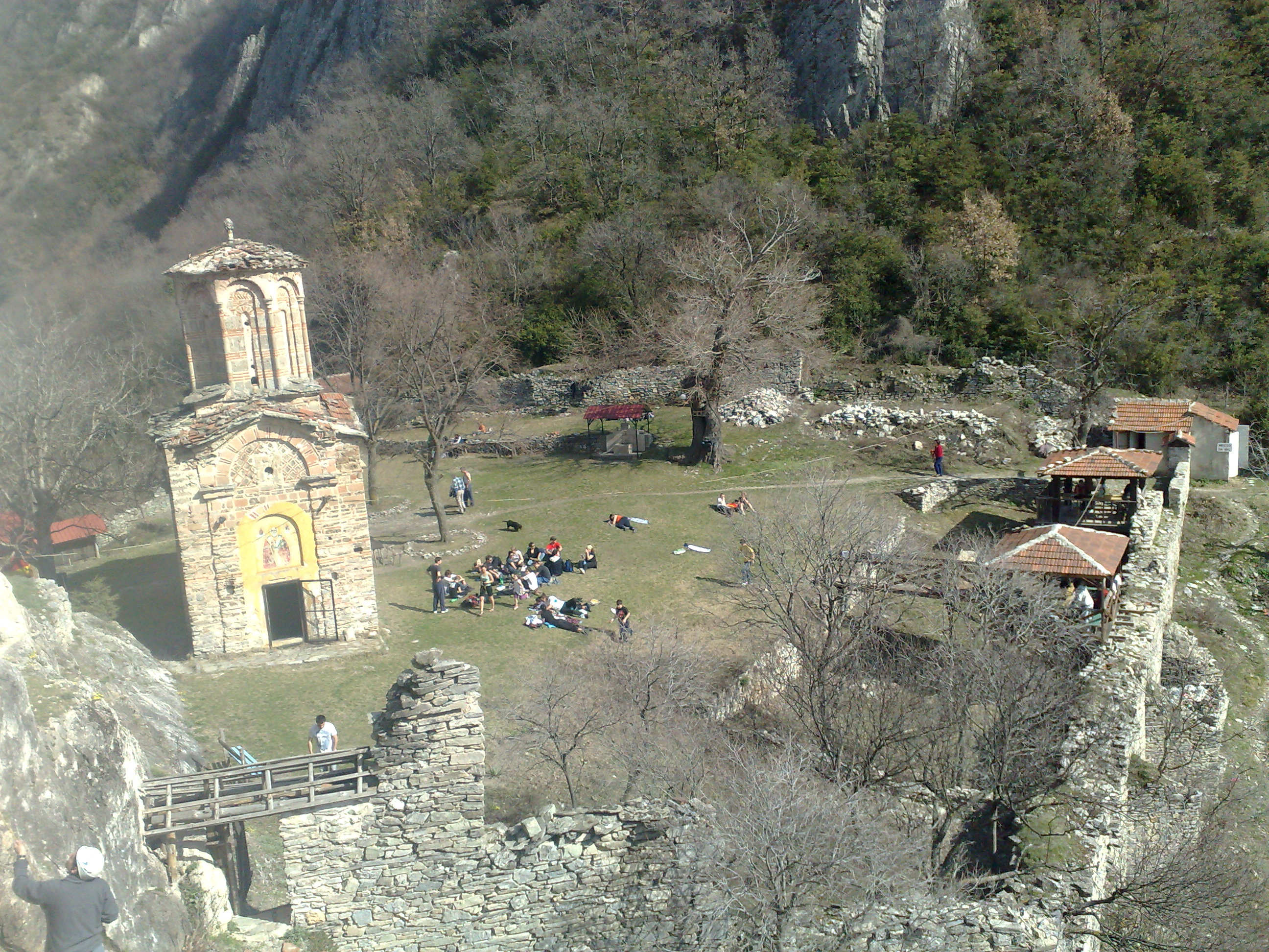 Monastery Saint Nicolas of Shishevo - Macedonia